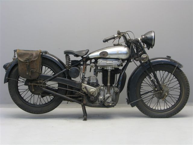 Praga 500 cc DOHC motorcycle from 1932